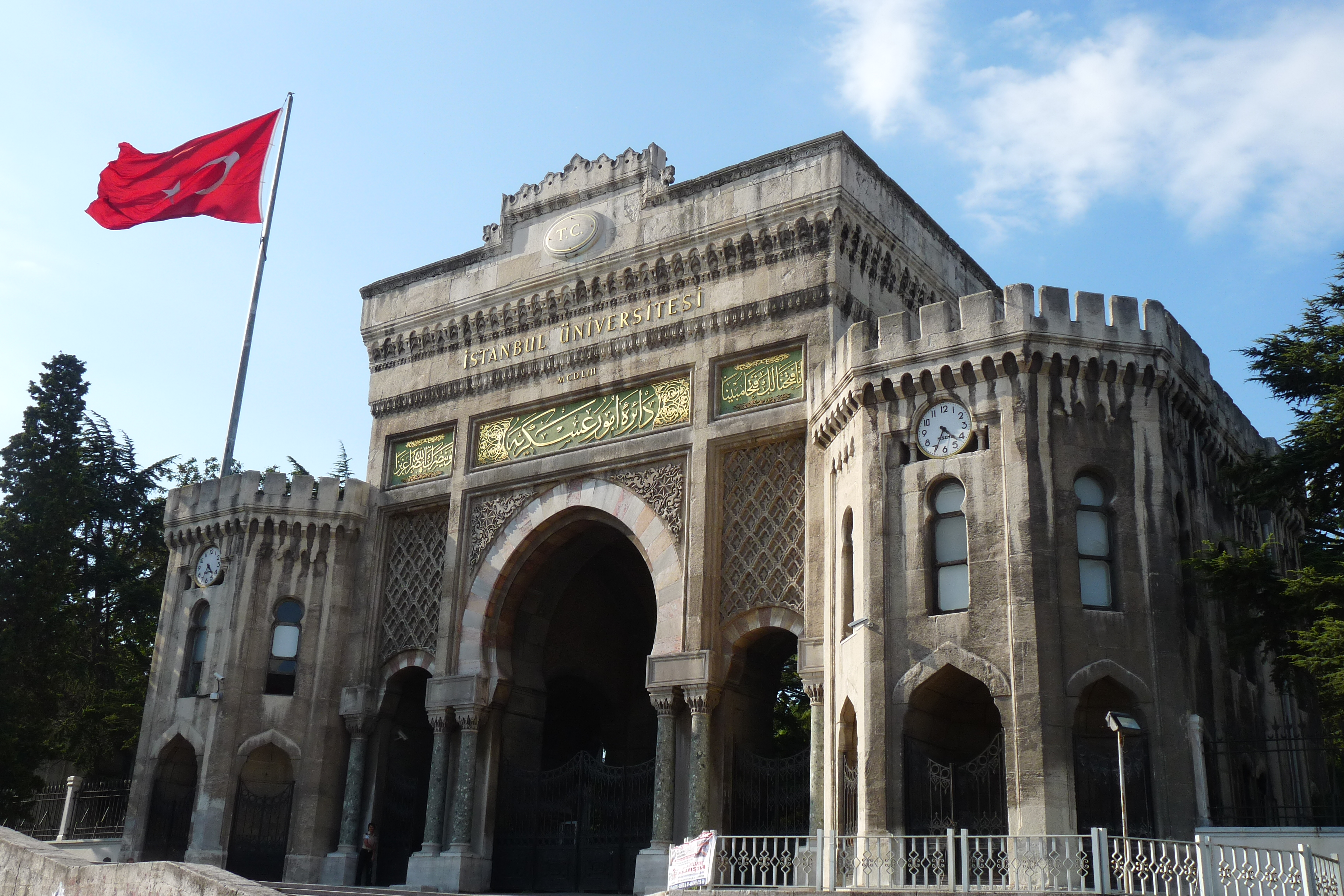 The main gate of the Istanbul University.